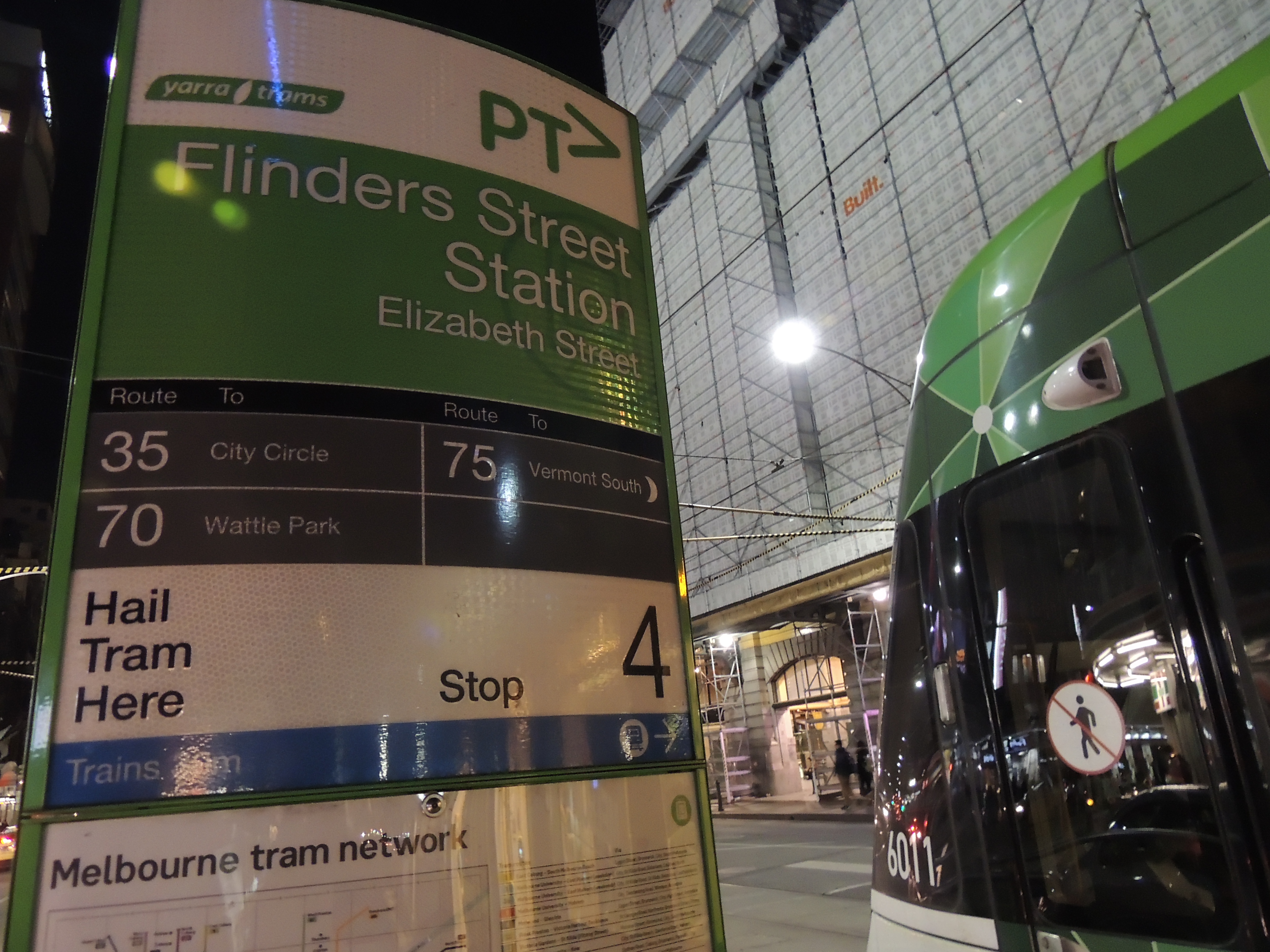 The 'flag' for the tram stop on Flinders Street at its intersection with Elizabeth Street, just outside. At this time, the exterior of the station was being restored as part of the station's refurbishment project. E-class tram number 6011 at the platform was operating a special route 70 service to the Melbourne Park Multi-Purpose Venue.